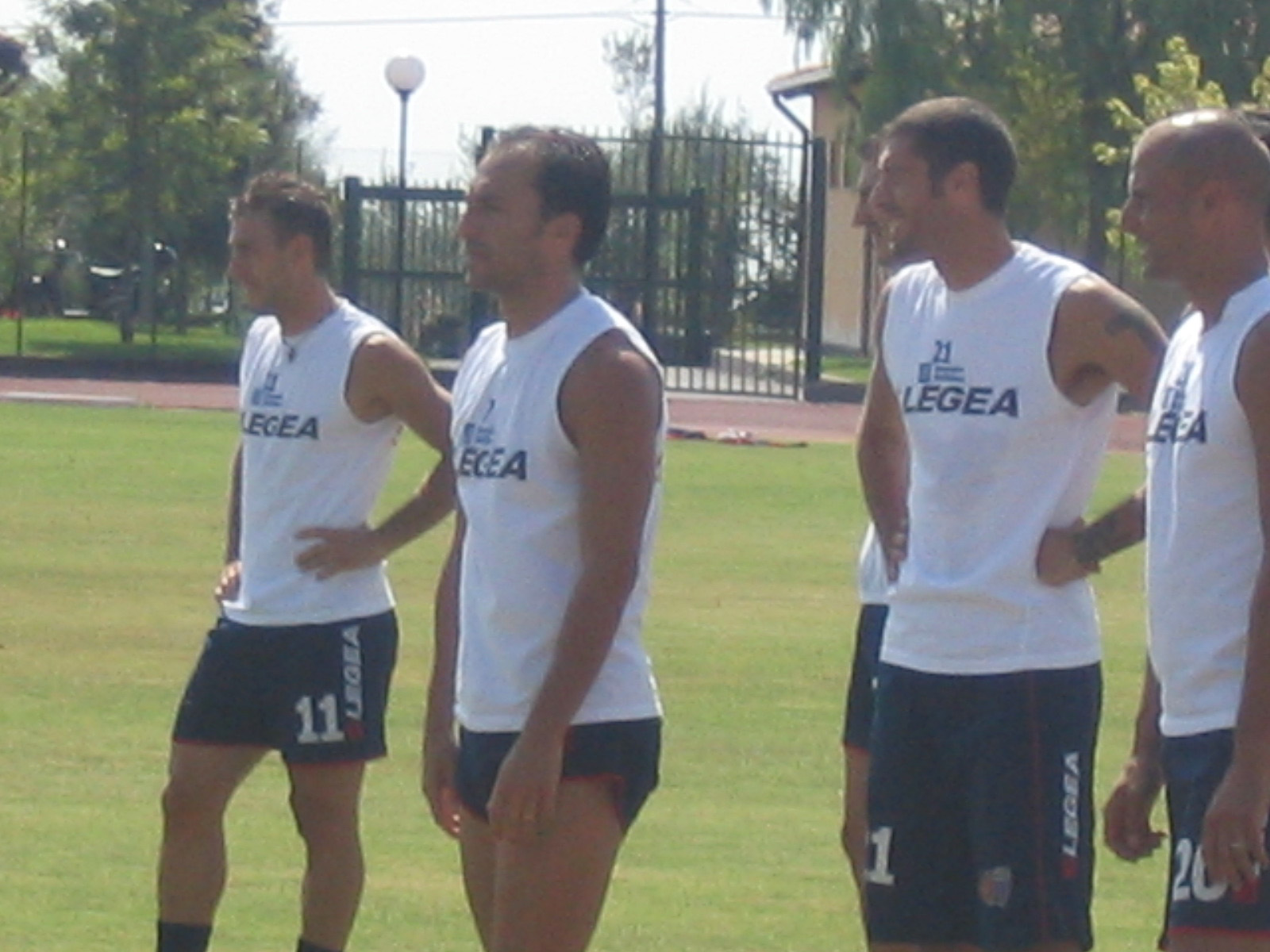 Umberto Del Core, Orazio Russo, Cristian Silvestri and Paolo Bianco during a training of Catania Calcio, in Massannunziata